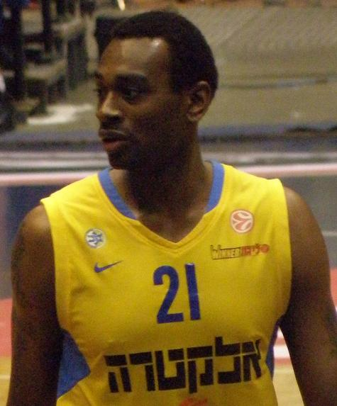 American Basketball player playing for (2010)